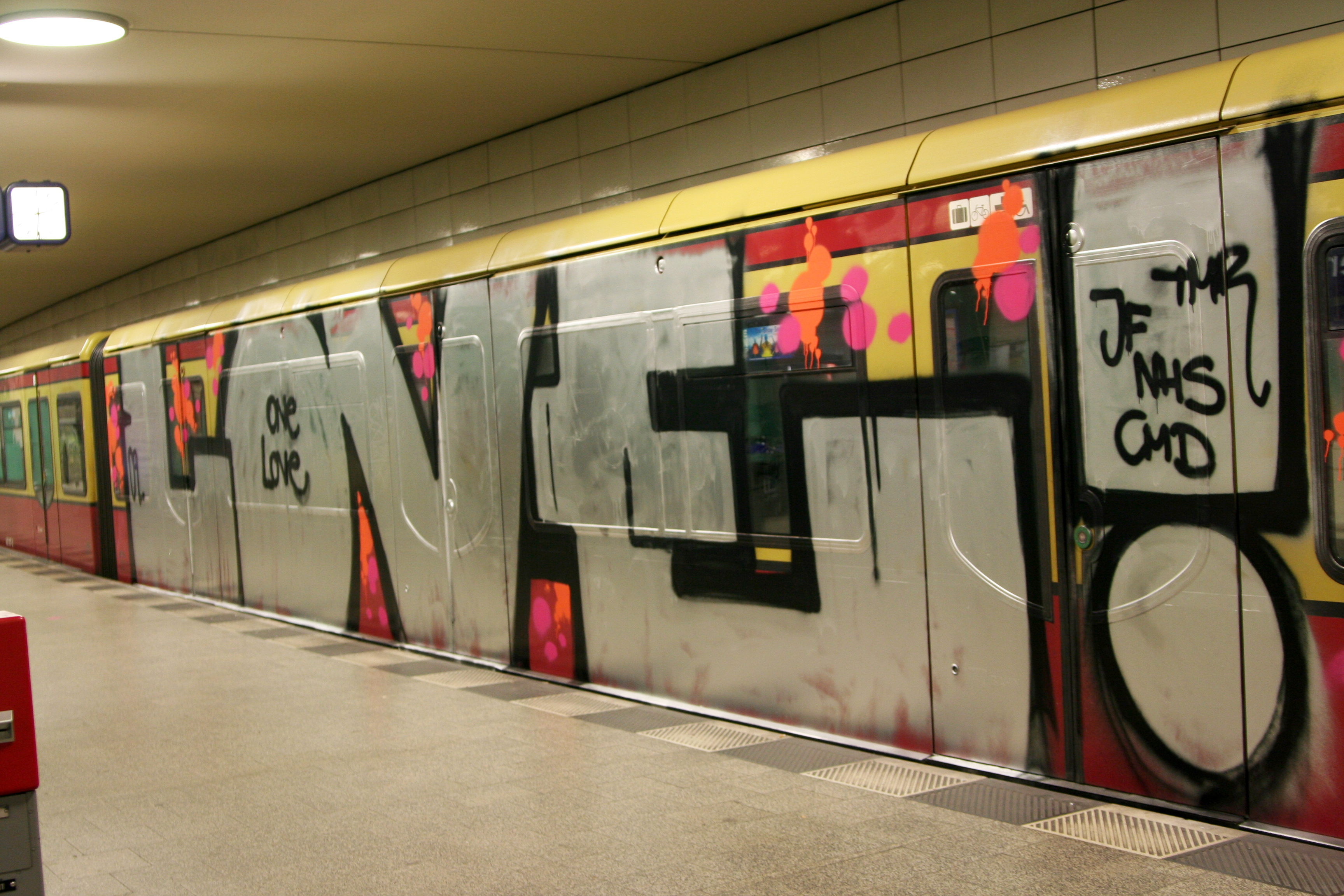 Full train graffiti on station Anhalter Bahnhof in Berlin